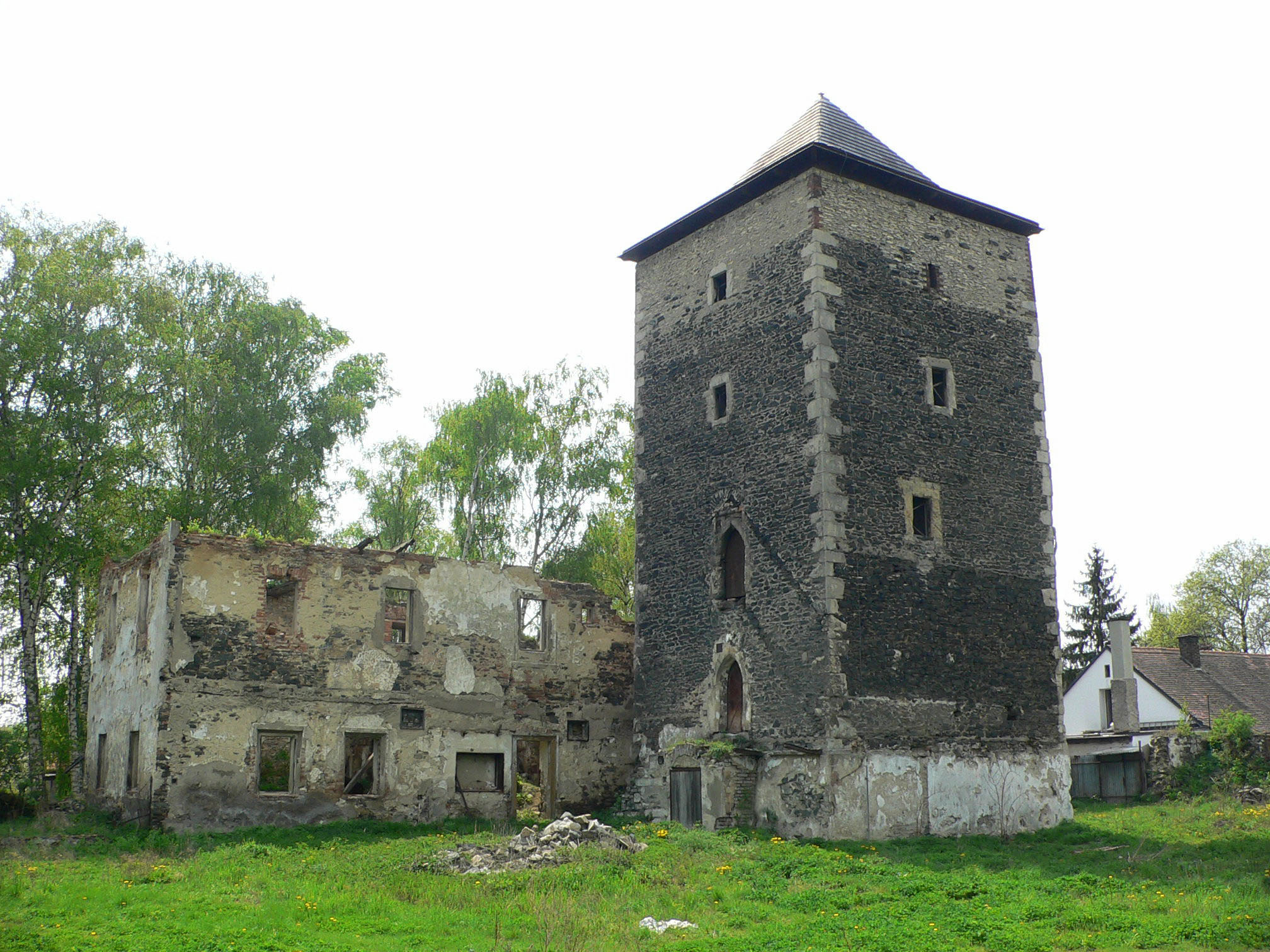 Stronghold in Lošany